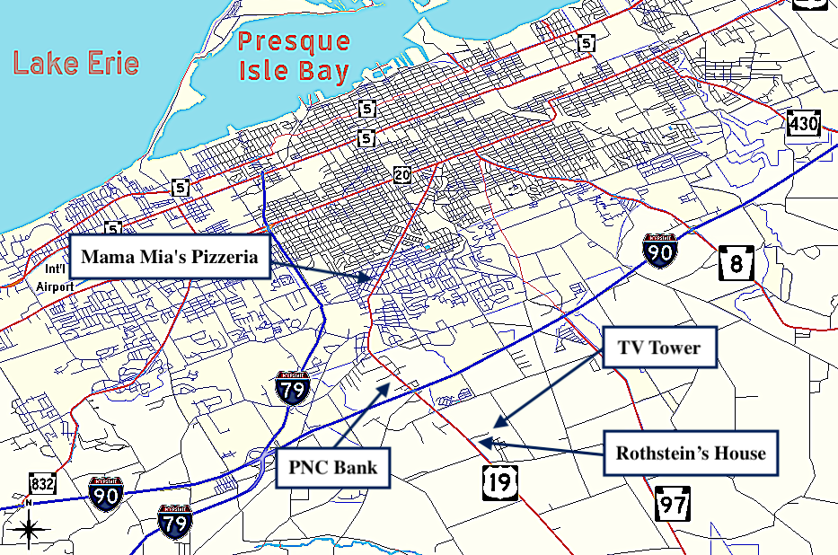 This file is a modified version of Erie, Pennsylvania map.png created by Vishwin60